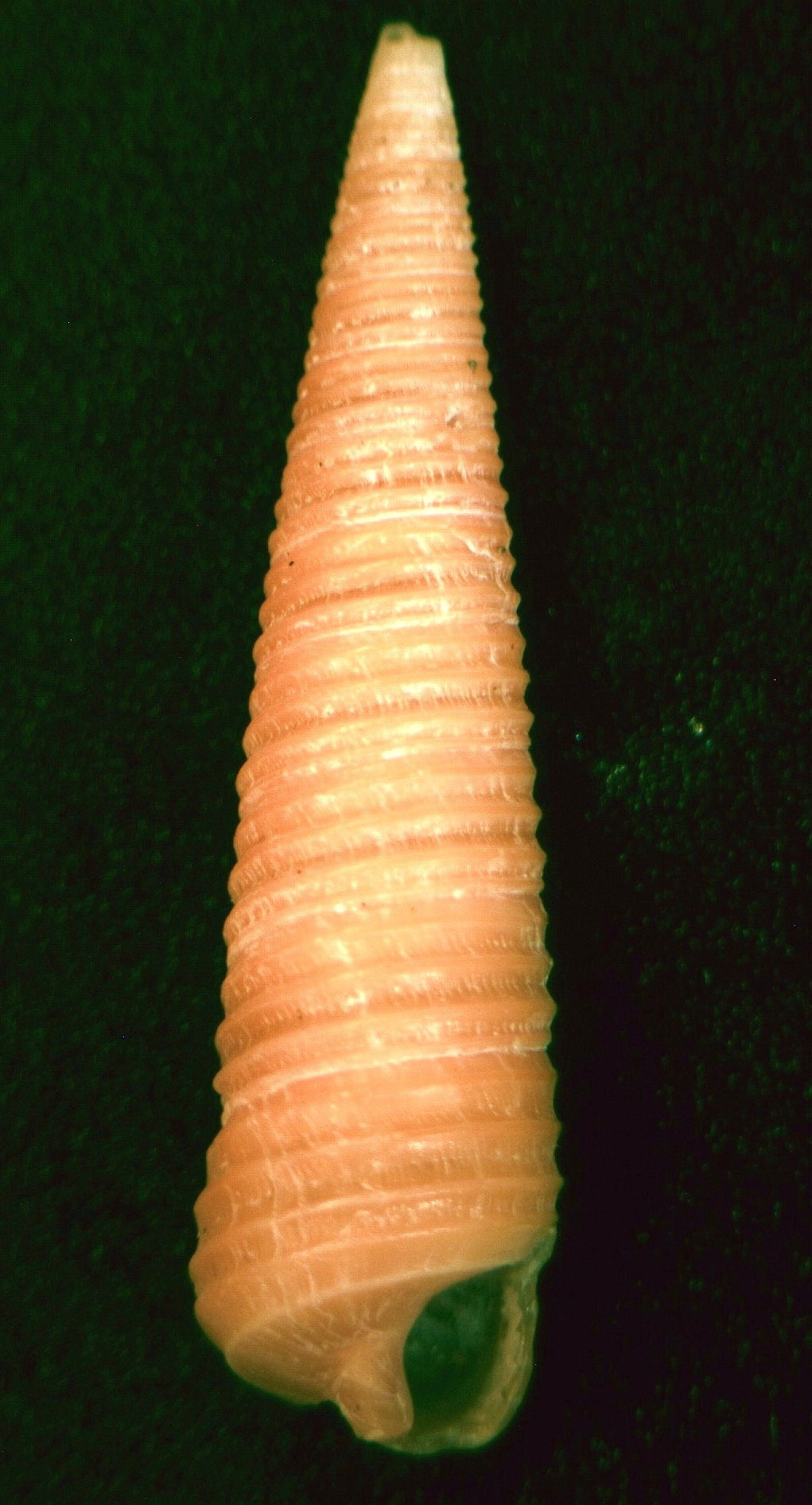 Seila crocea G. F. Angas, 1871, a micromollusk in the family Cerithiopsidae; Southern Australia